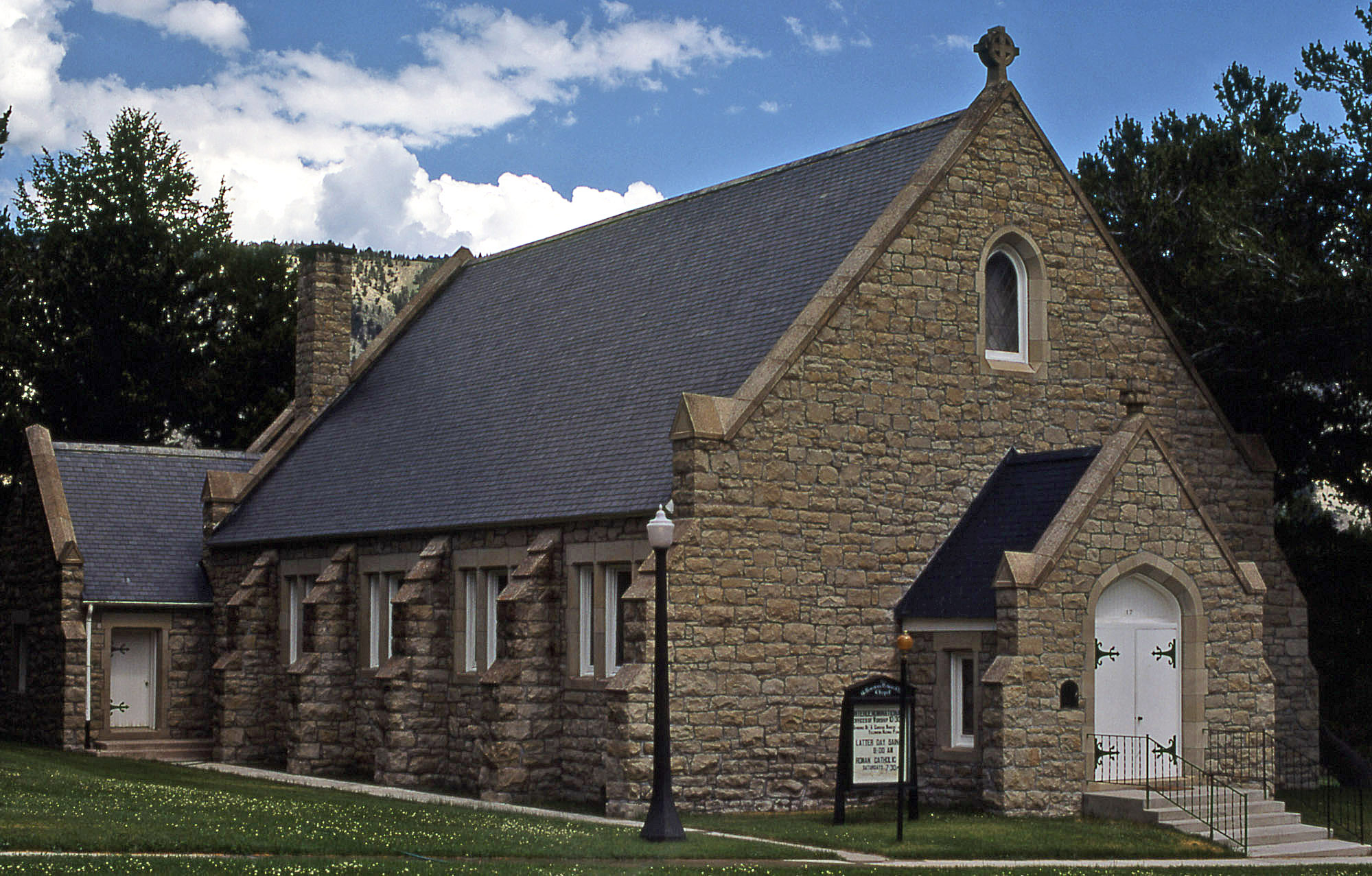 Fort Yellowstone Chapel, Yellowstone National Park, 1974